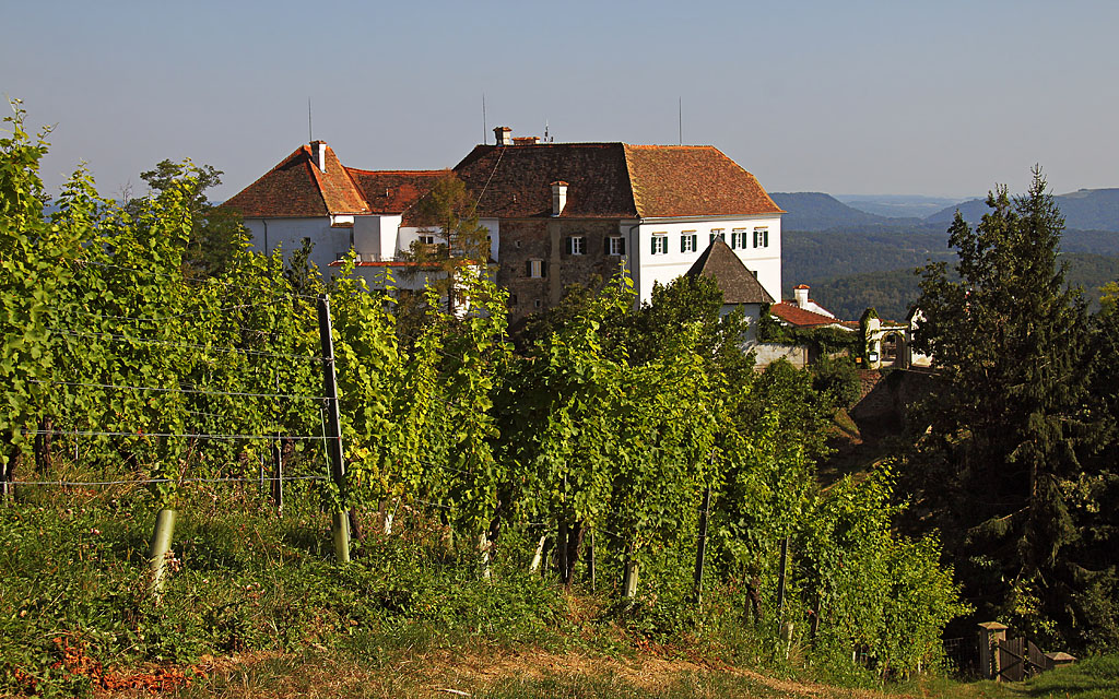 Kapfenstein castle and its wineyards